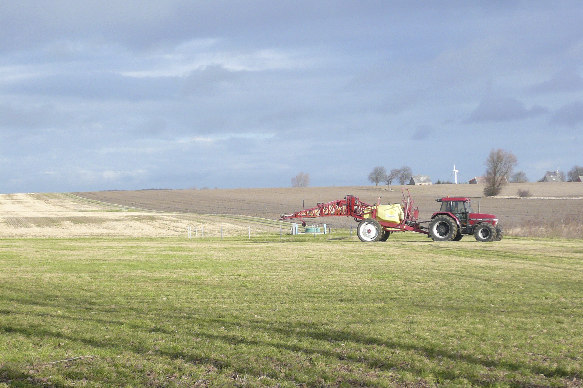 A Case IH tractor with a Hardi Commander field sprayer, Lolland, Denmark